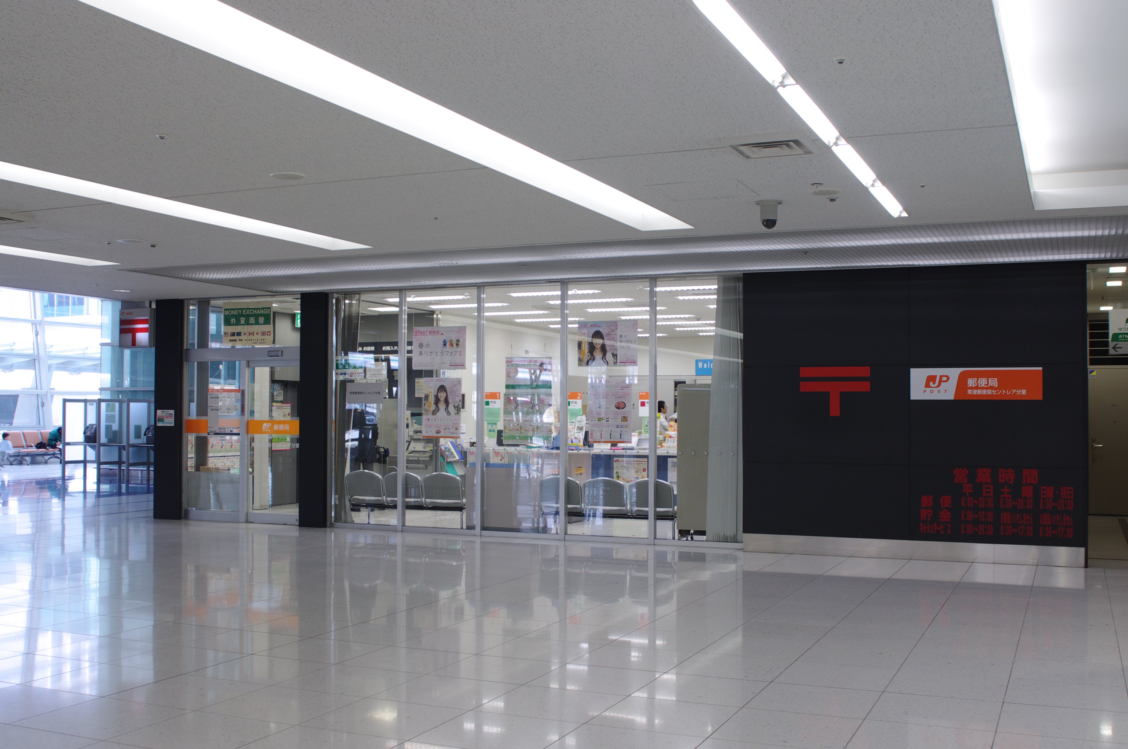 Tokoname Post Office Centrair Branch in Tokoname, Aichi, Japan